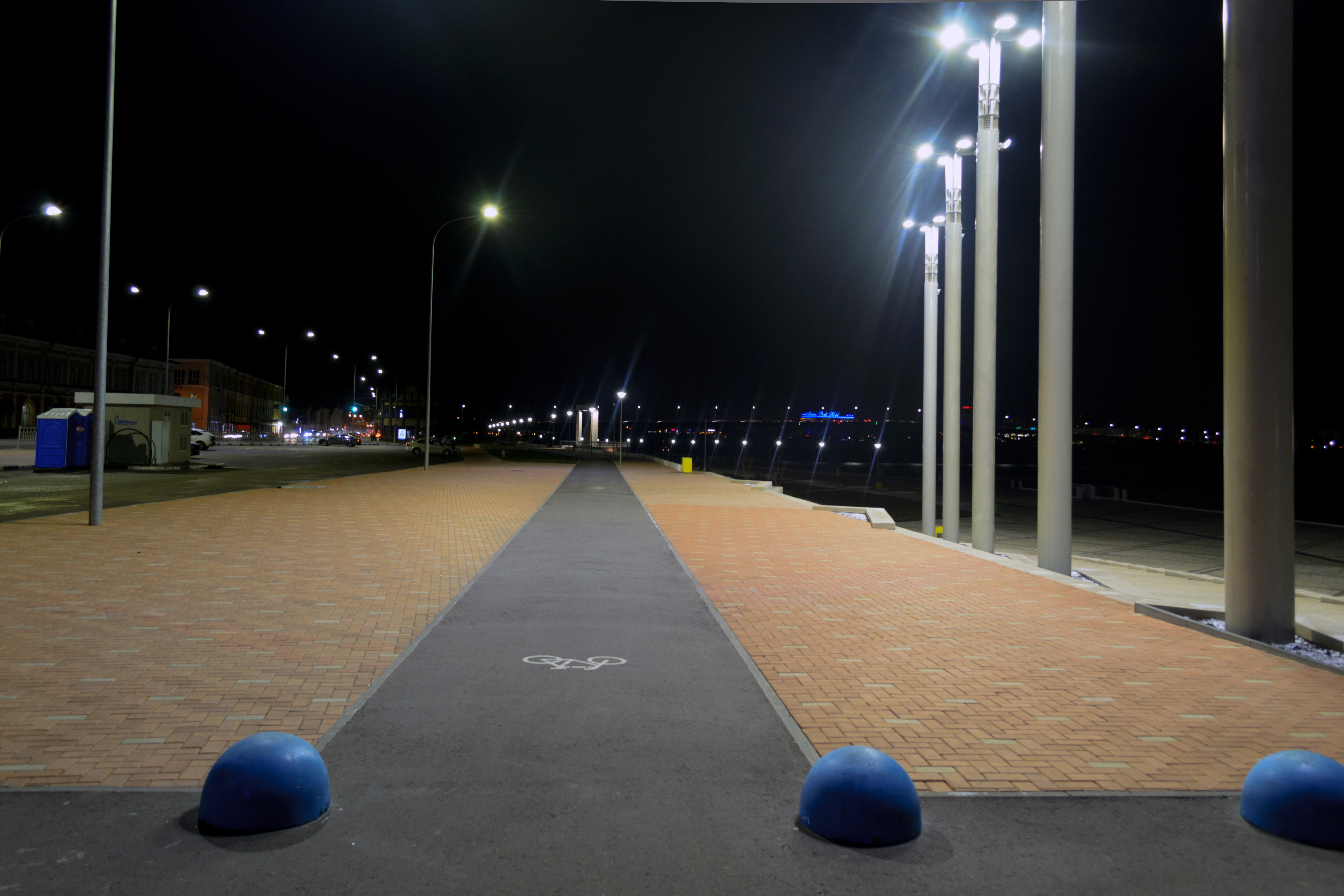 Bikeway on the Lower Volga River embankment at night. Nizhny Novgorod